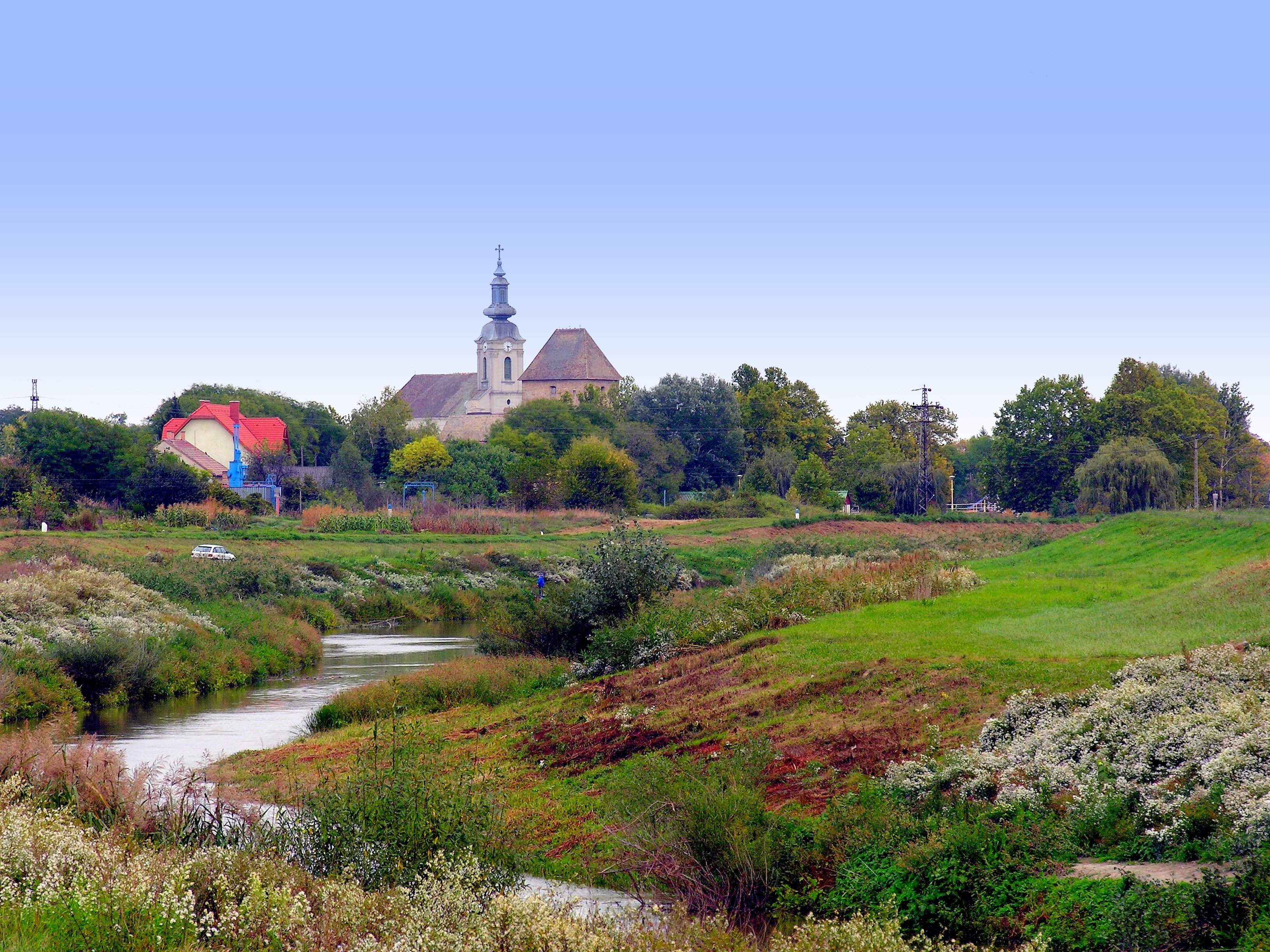 A distant view of the town Simontornya, including the two main icon of the church and castle, the river Sio can be seen meandering in the foreground.